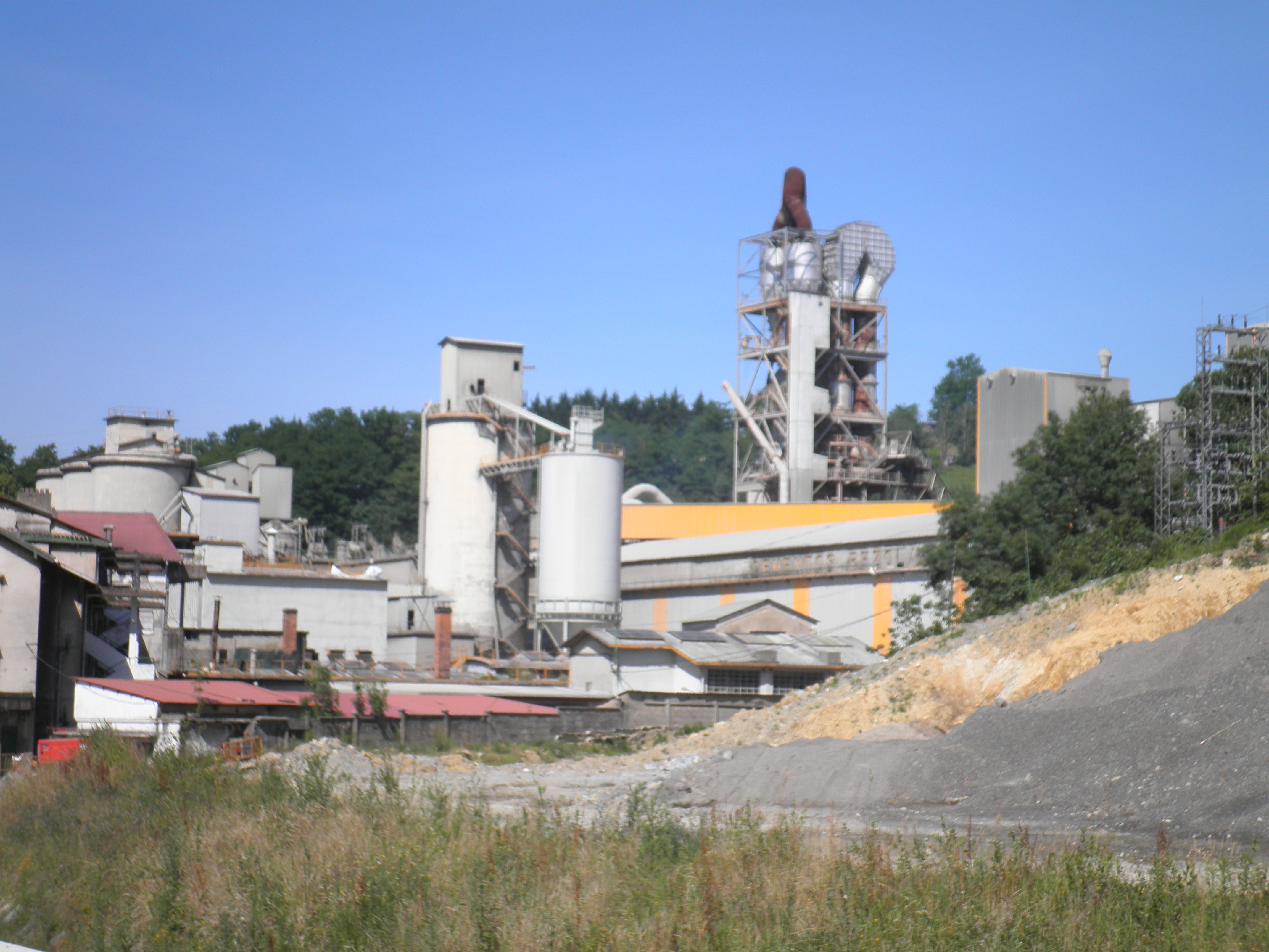 Rezola cement plant in Añorga.